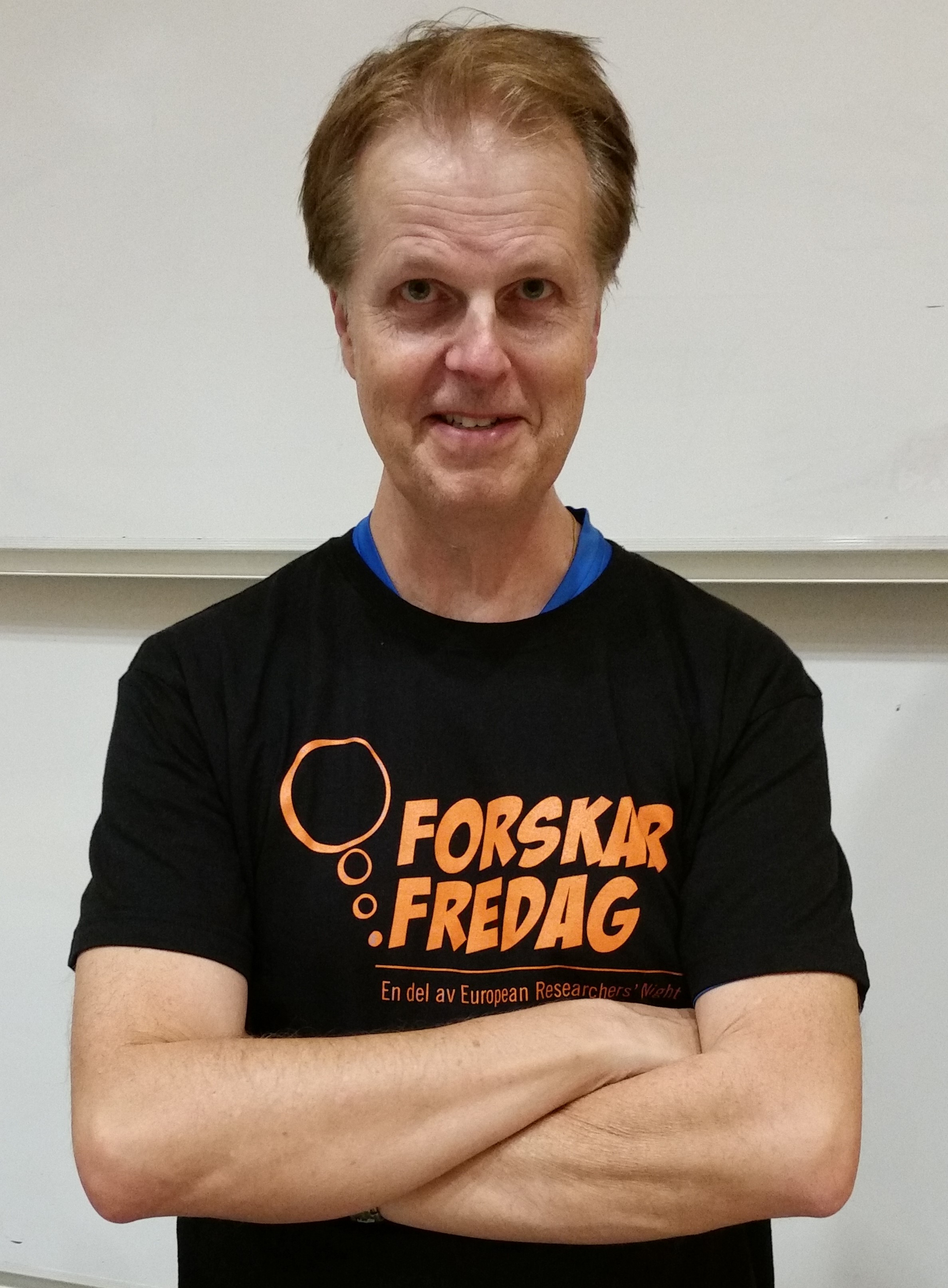 Patrik Norqvist during the European Researchers’ Night event at Umeå University